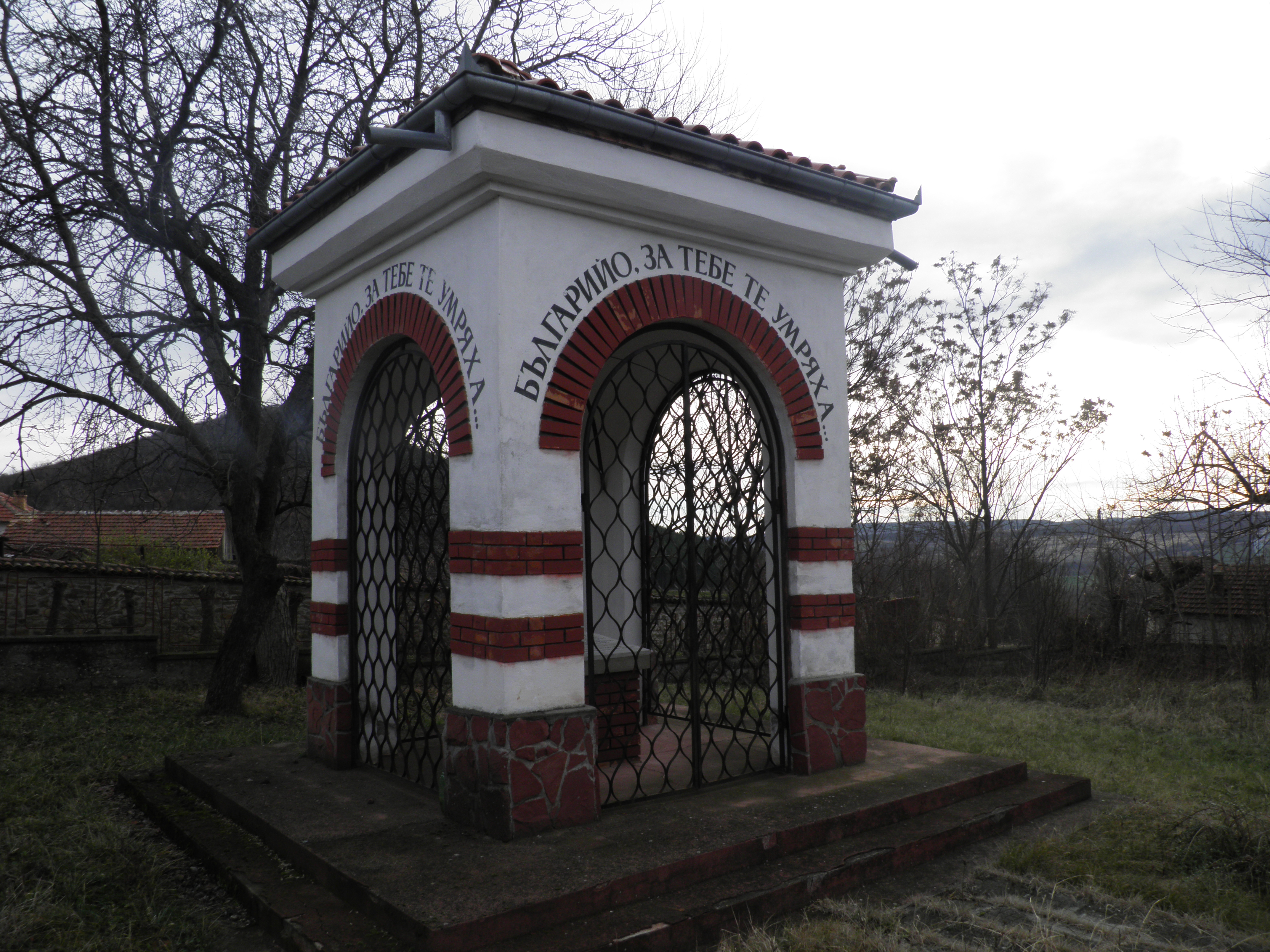 Pantheon of the warriors of Stefan Karadzha and Hadzhi Dimitar,Vishovgrad,Bulgaria